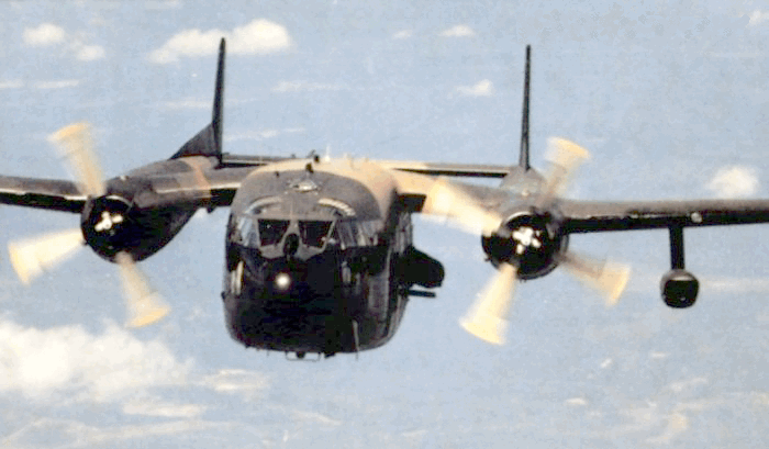 AC-119